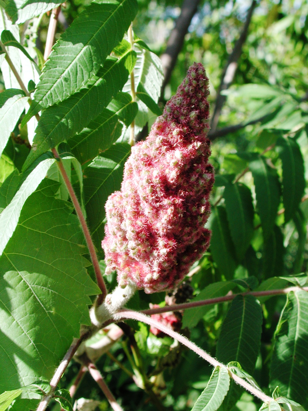 Staghorn sumac bob, Hamilton, Ontario